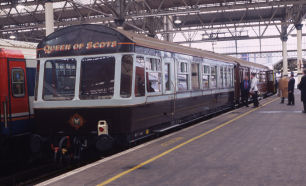 Scottish Highland Railway Company Limited The Queen of Scots The copyright holder is Scottish Highland Railway Company Limited